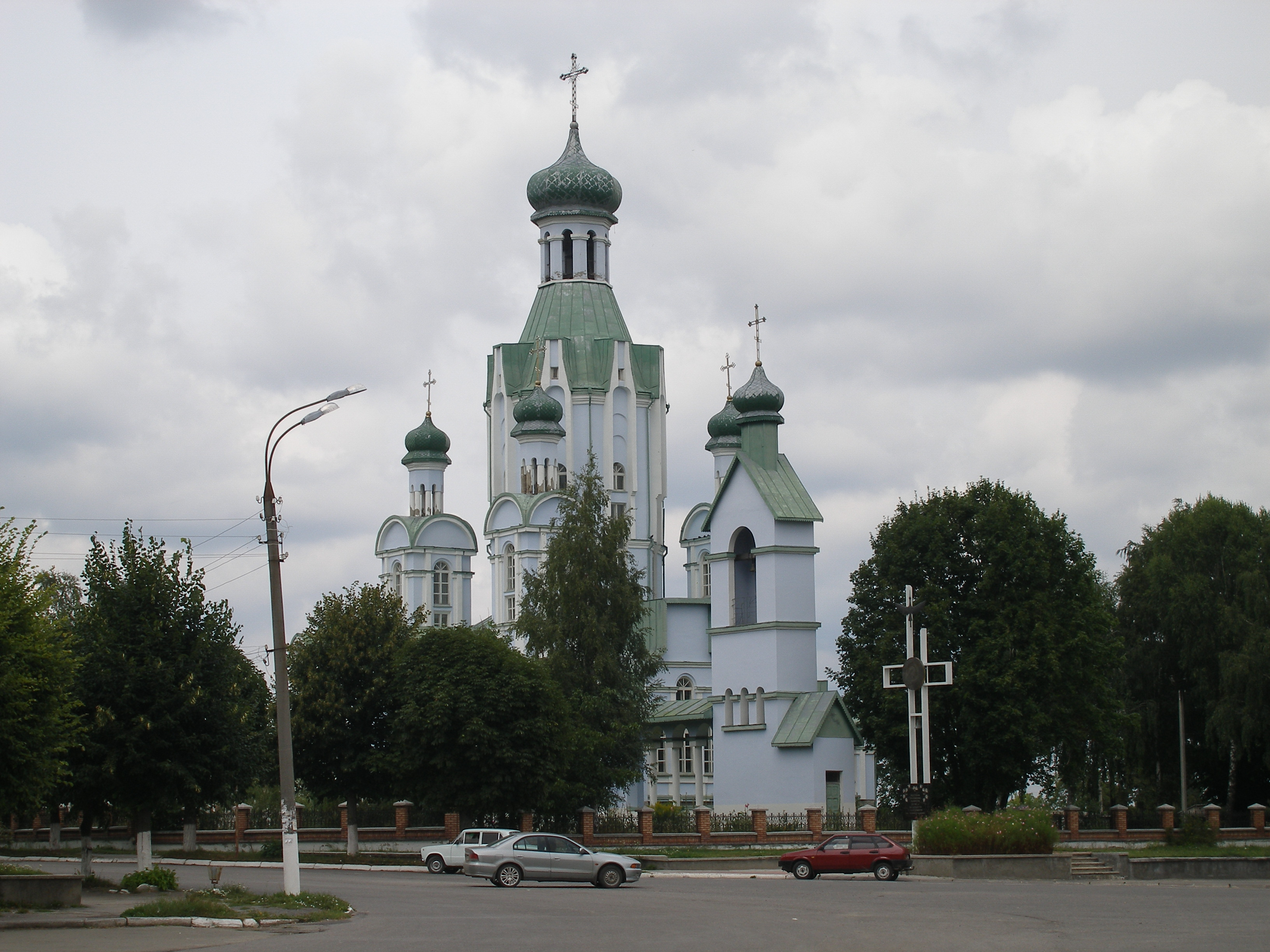 Church in Teofipol, Ukraine